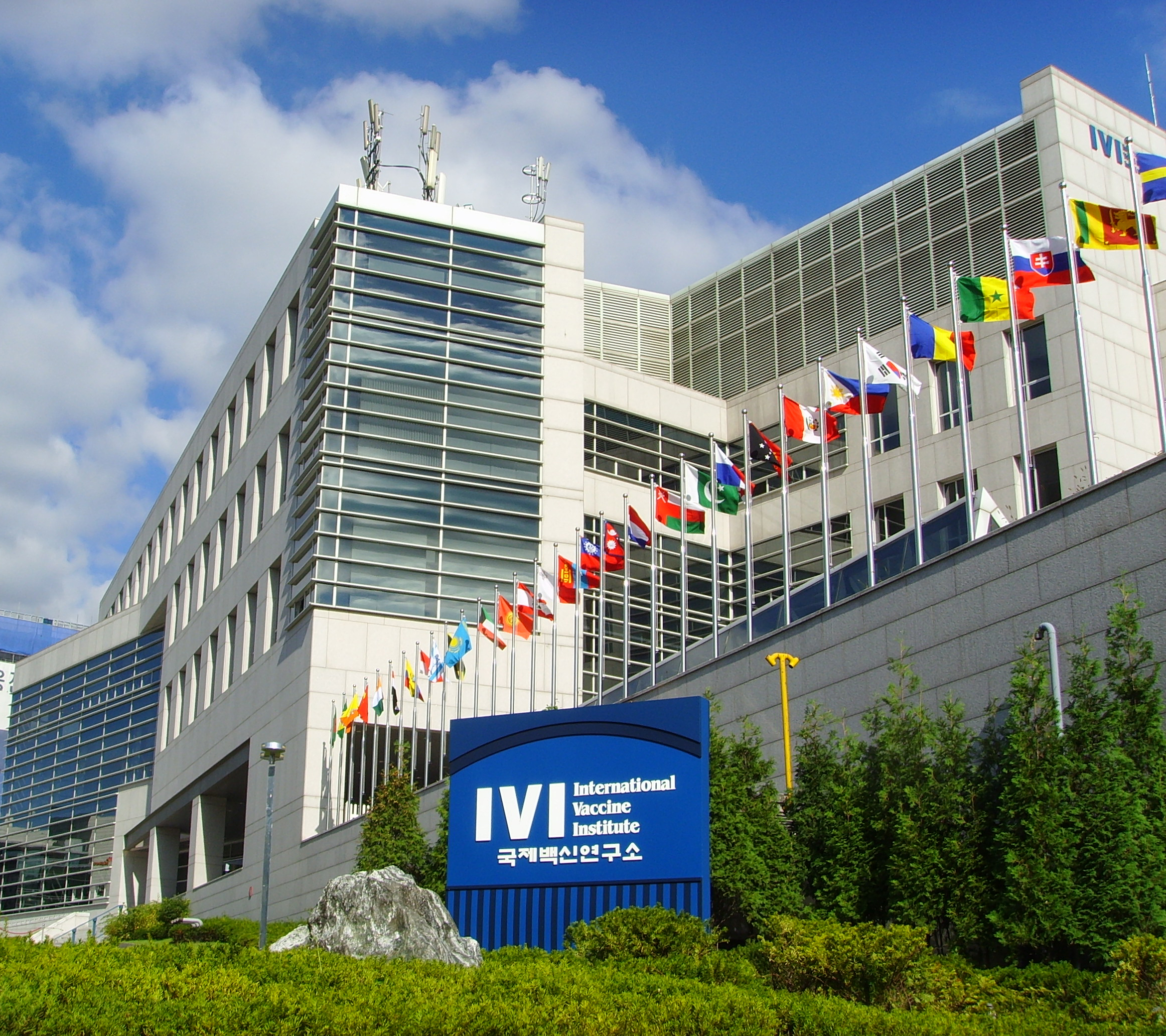 Front of the International Vaccine Institute